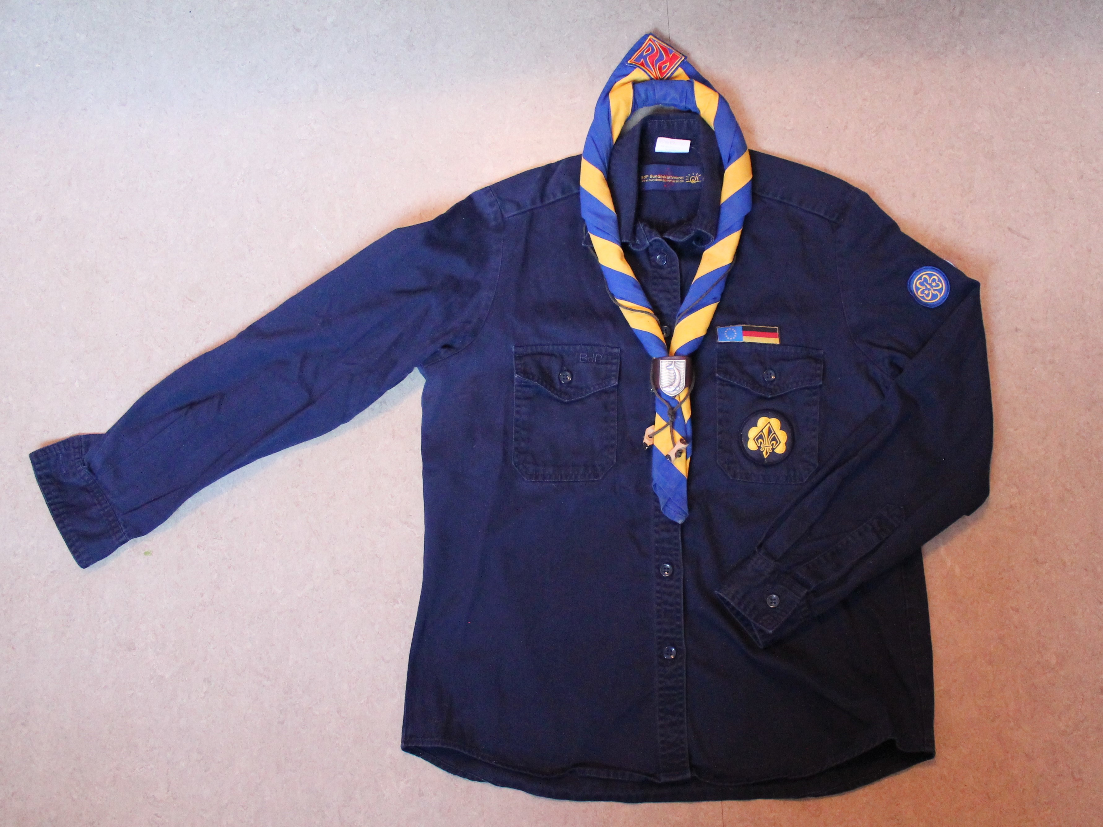 Bund der Pfadfinderinnen und Pfadfinder Scout and Guide uniform in blue with badges and a blue-yellow association scarf